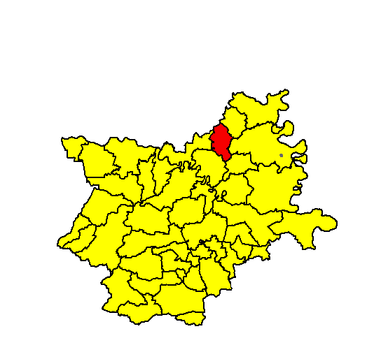 Location of city inside Osijek-Baranja County